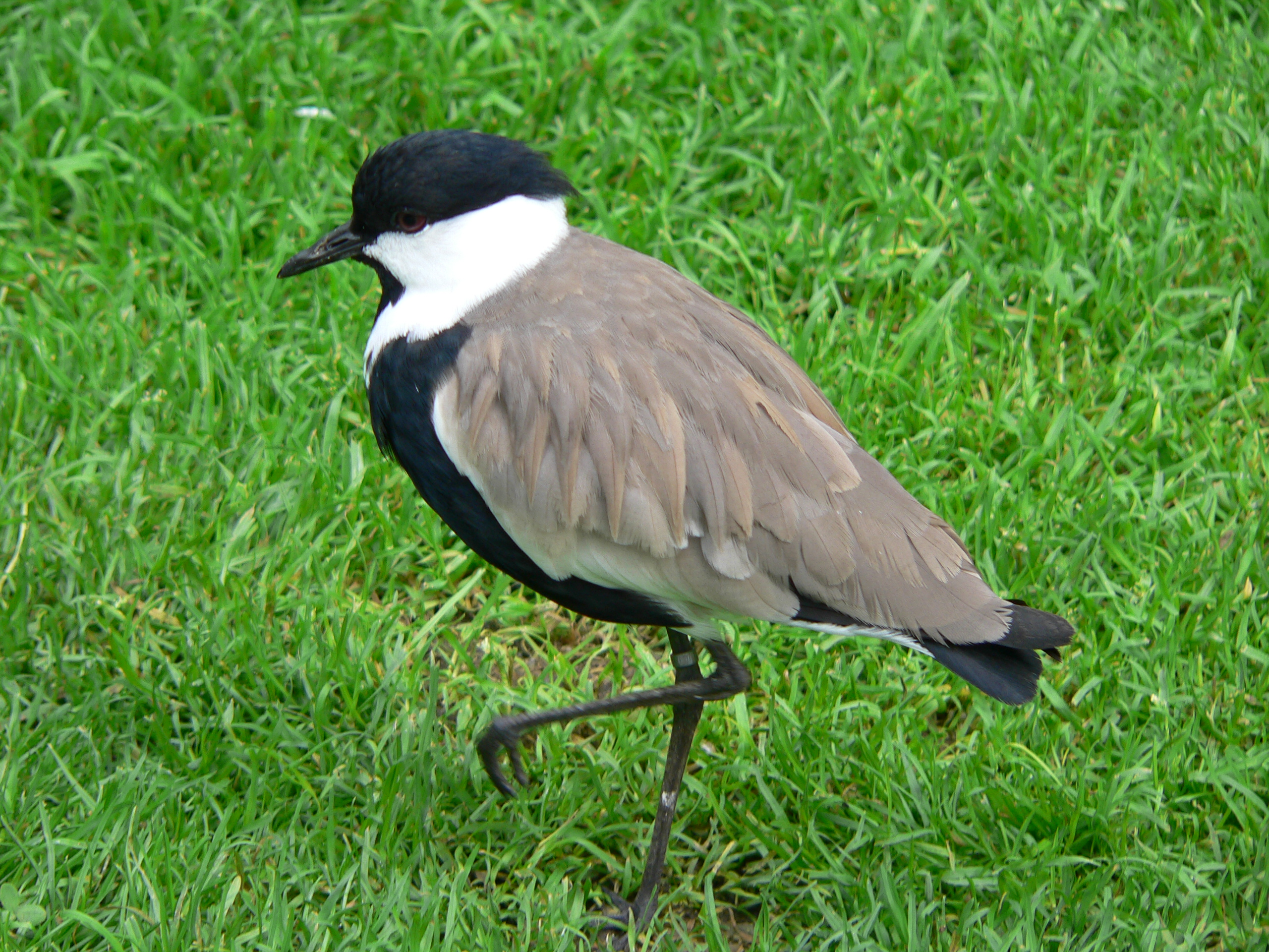 Jun 2005 Photo taken by user Benutzer:BS Thurner Hof